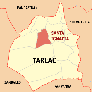 Map of Tarlac showing the location of Santa Ignacia